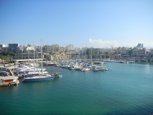 The port of Heraklion in Crete, Greece.